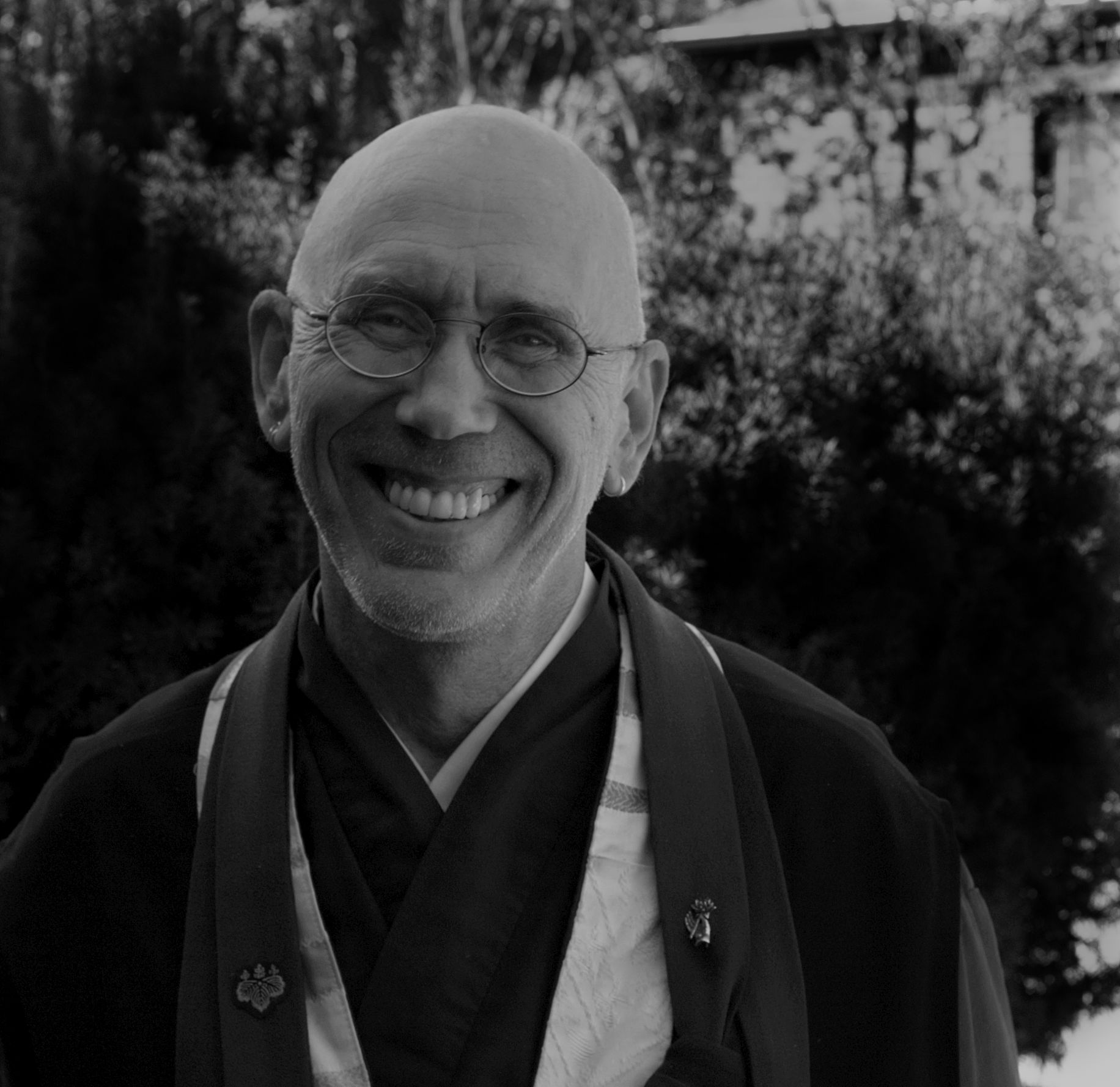 Photo of Zen Buddhist Claude Anshin Thomas by Paul Turgeon Used at